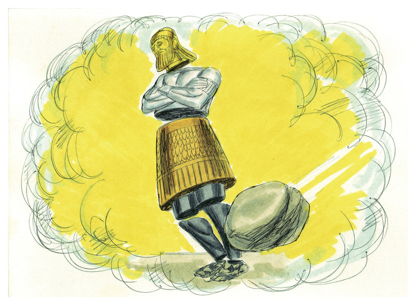 Biblical illustration of Book of Daniel Chapter 2